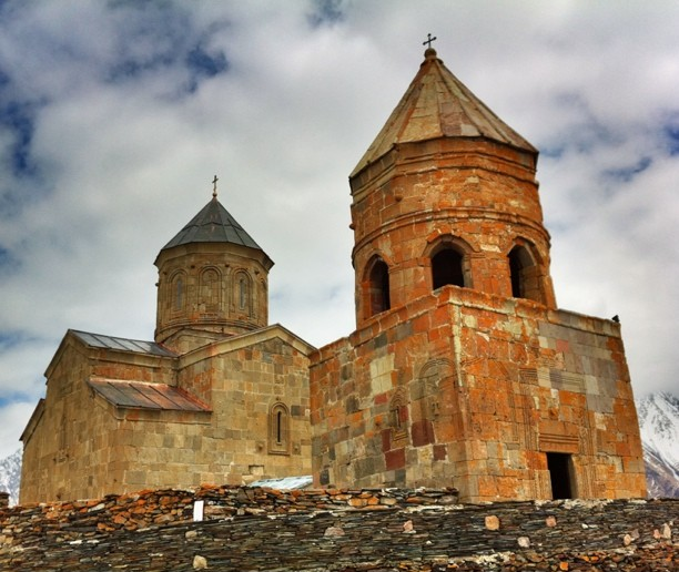 HDR shot of the Gergeti Trinity Church, Kazbek, Georgia